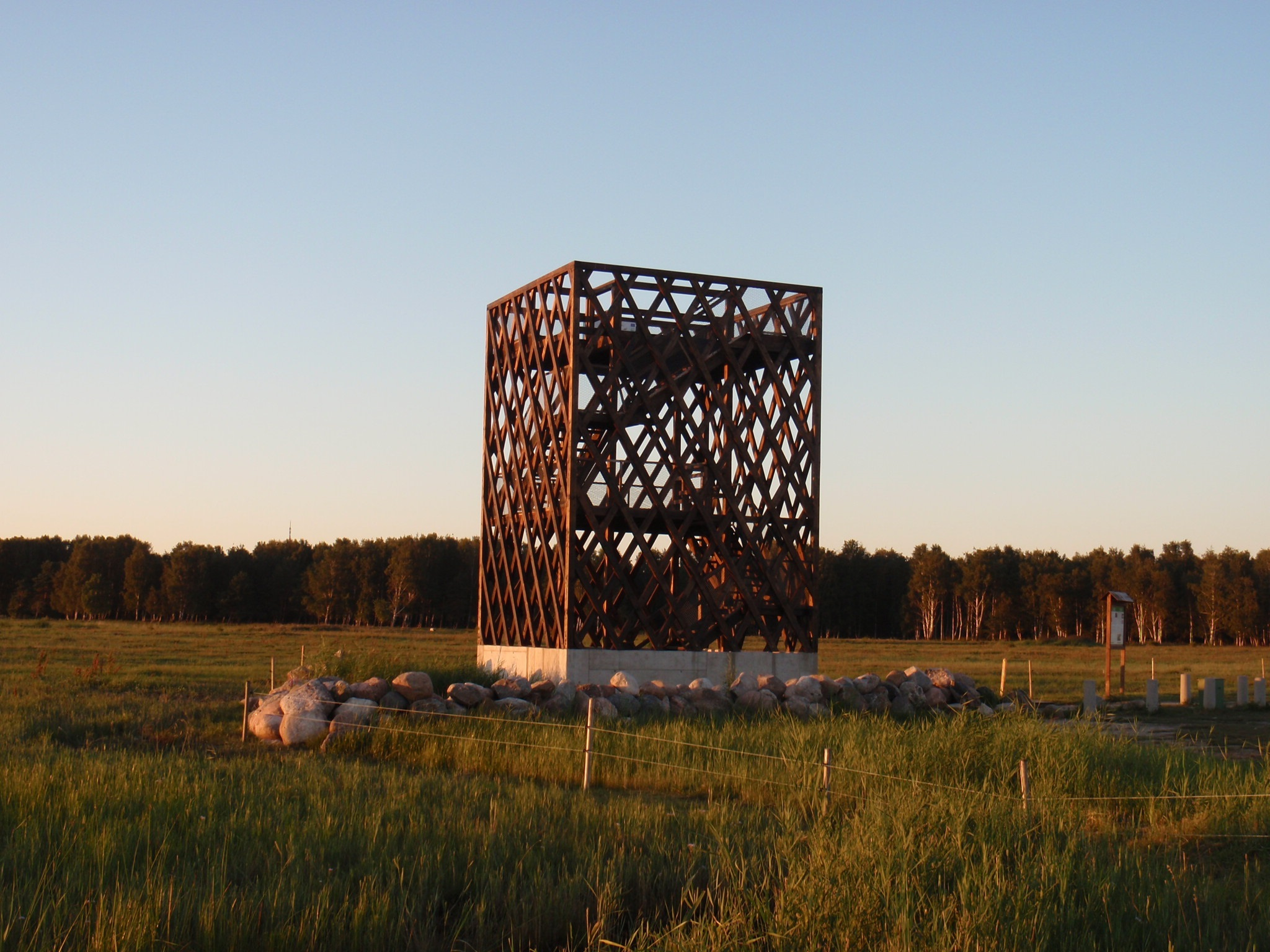 Vaatetorn Pärnu rannaniidu LKA-l